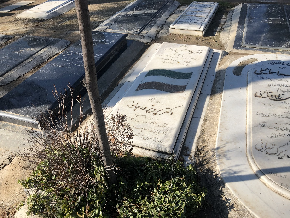 Behesht Zahra